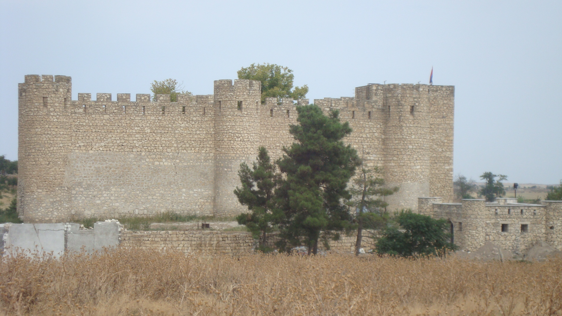 Tigranakert Fortress also known as Shahbulag Castle. Agdam district, Azerbaijan / Askeran district, Republic of Mountainous Karabakh (Artsakh). The castle is used as a "museum of Tigranakert". See also: Анар Халилов. Консультанты: доктор исторических наук Гасым Гаджиев, к.ф.н Гамида Алиева, Памятники Карабаха / под ред. В. Гусейновой — Günəş-B, 2009. — ISBN 9789952440478. Page 116. Pic. 1,3,4 See also:[1]